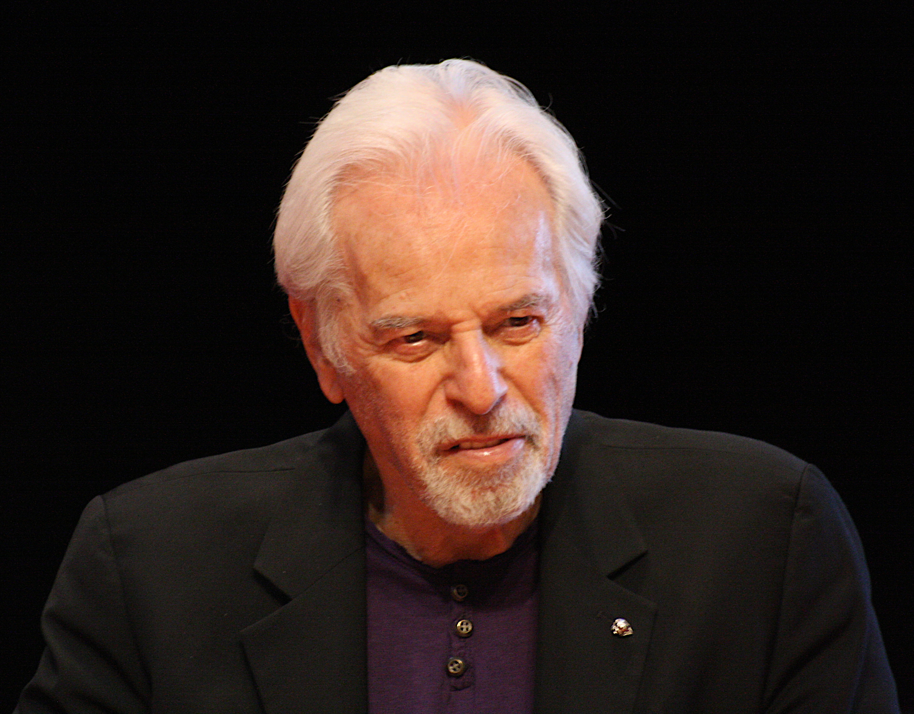 The conference of Alejandro Jodorowsky, at the Utopiales international science fiction festival held in 2011 in Nantes, France.